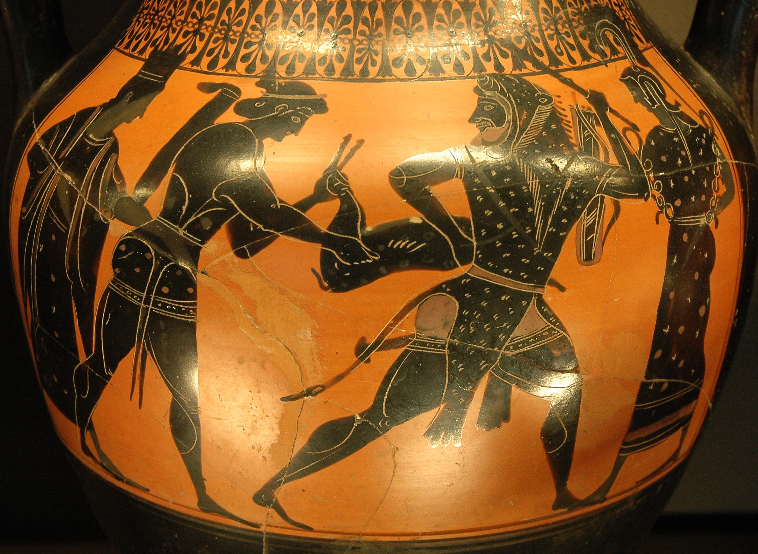 Herakles capturing the Ceryneian Hind, detail of an Attic black-figure amphora, ca. 530 BC–520 BC.